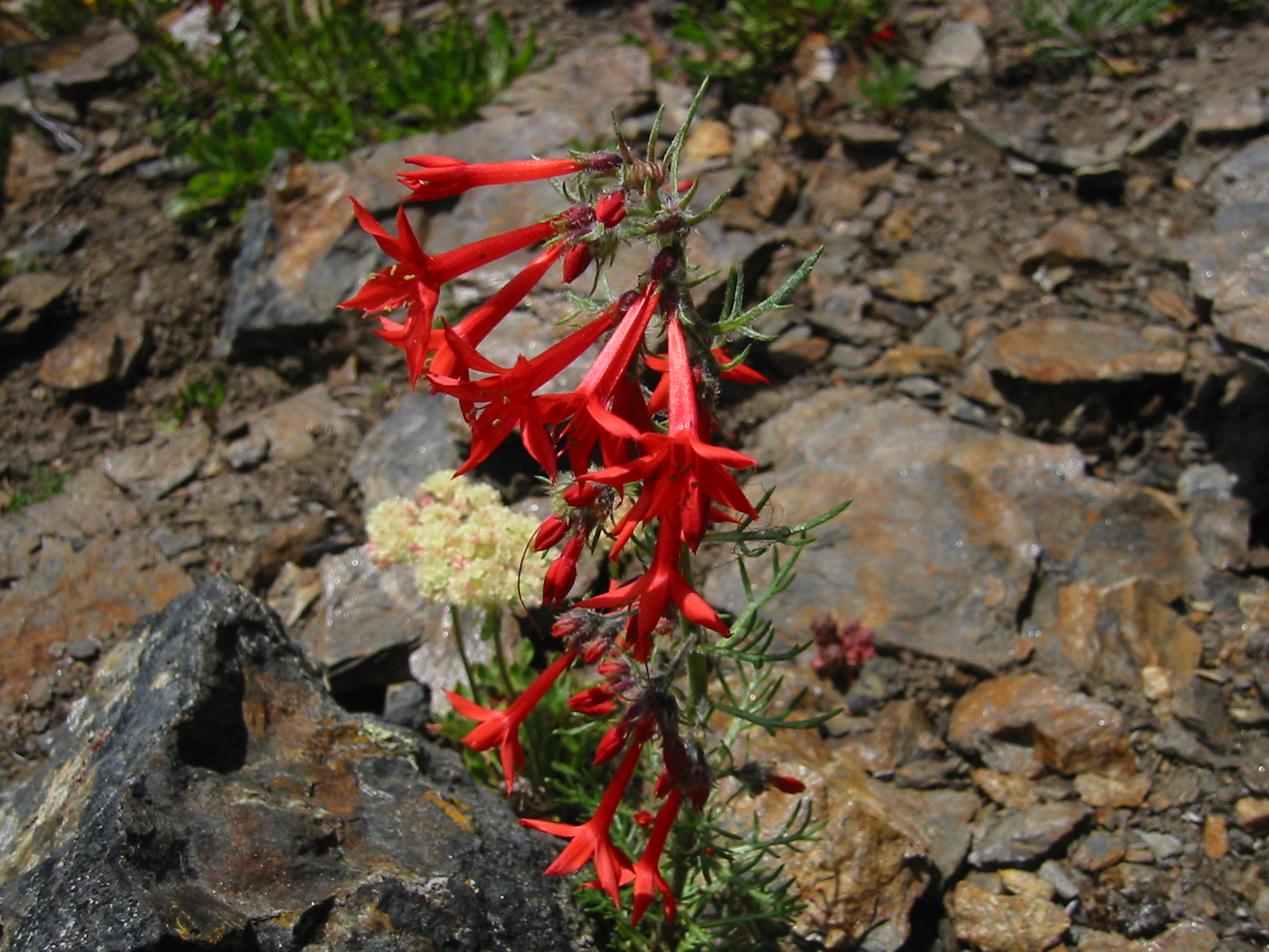 Scarlet Gilia, Skyrocket